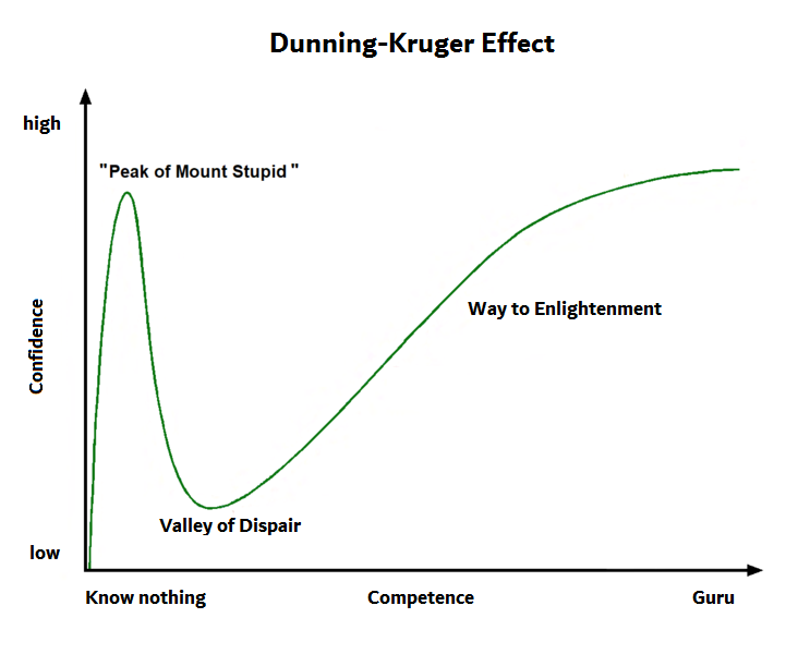 Developing confidence to speak on a subject depending on experience and knowledge.